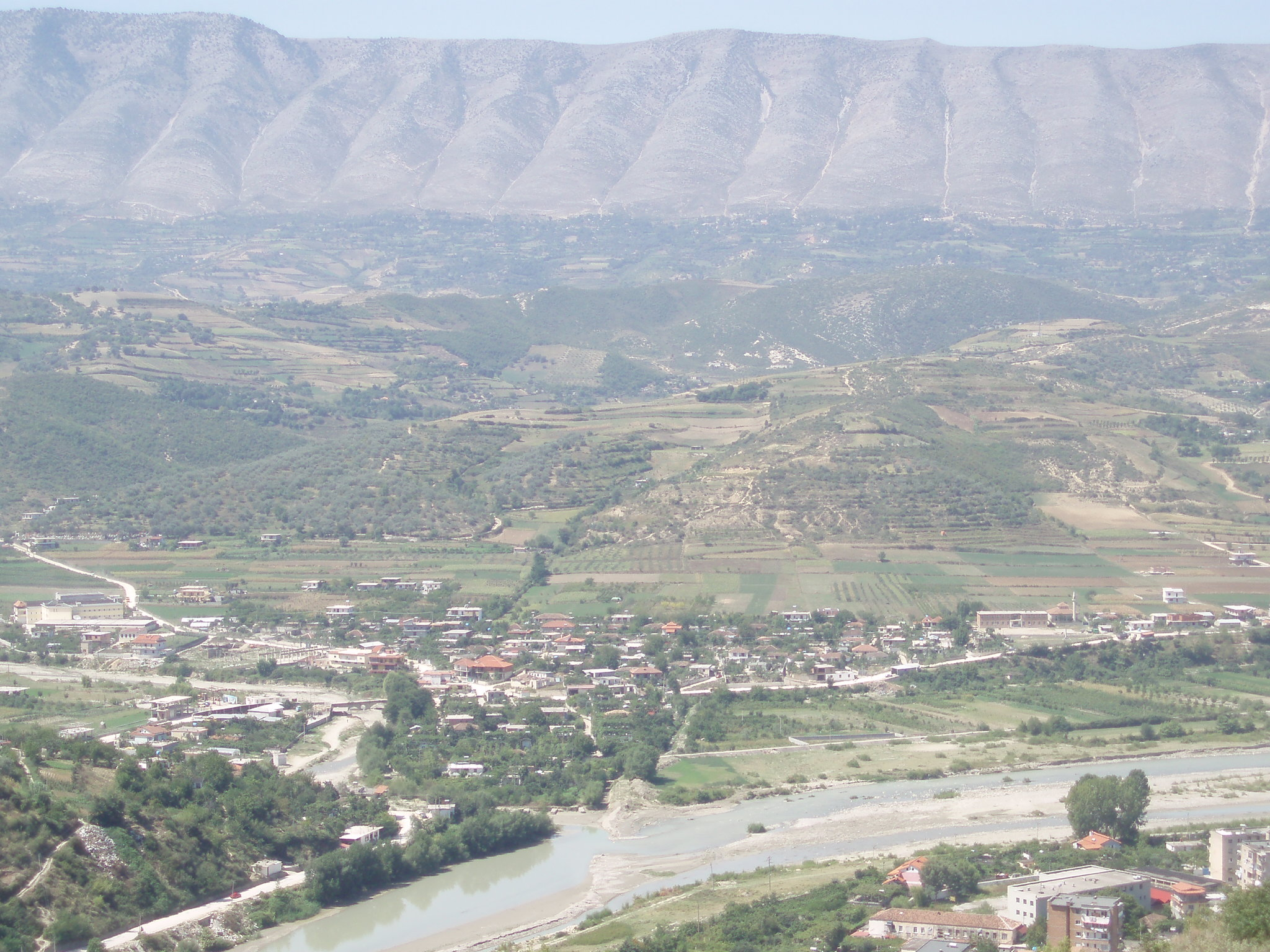 view of the new part of Berat, Albania. Taken from the castle